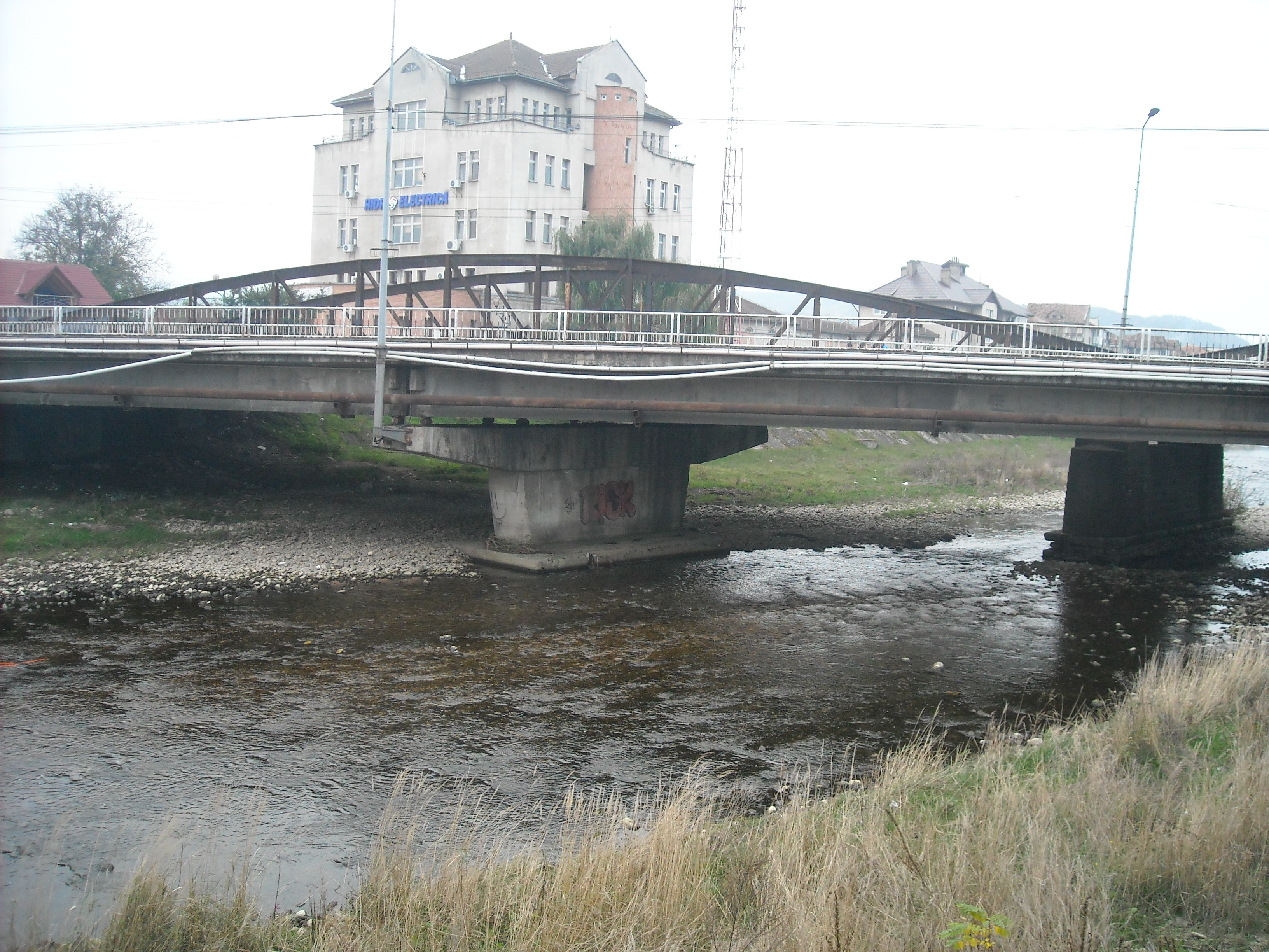 bridge over the River Sebeș in Caransebeș